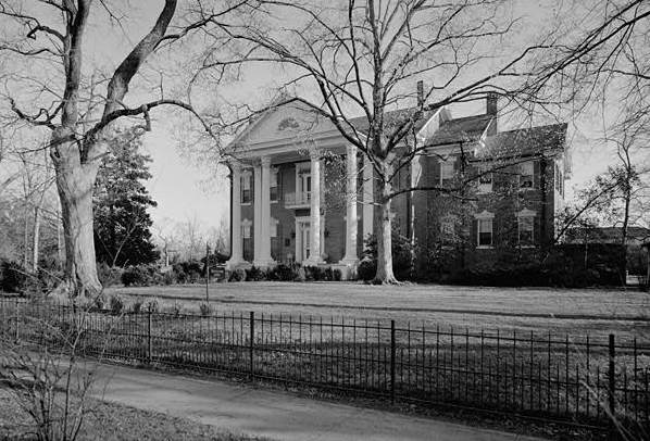 Item Title Montrose, 110 Salem Avenue, Holly Springs, Marshall County, MS Medium Photo(s): 9 (5 x 7 in.) Call Number HABS MISS,47-HOLSP,6- Created/Published Documentation compiled after 1933. Notes Survey number HABS MS-226 Subjects Holly Springs, Mississippi--Marshall County, Mississippi--Holly Springs Reproduction Number [See Call Number] Collection Historic American Buildings Survey (Library of Congress) Repository Library of Congress, Prints and Photograph Division, Washington, D.C. 20540 USA DIGID CARD # MS0237 Holly Springs, Mississippi